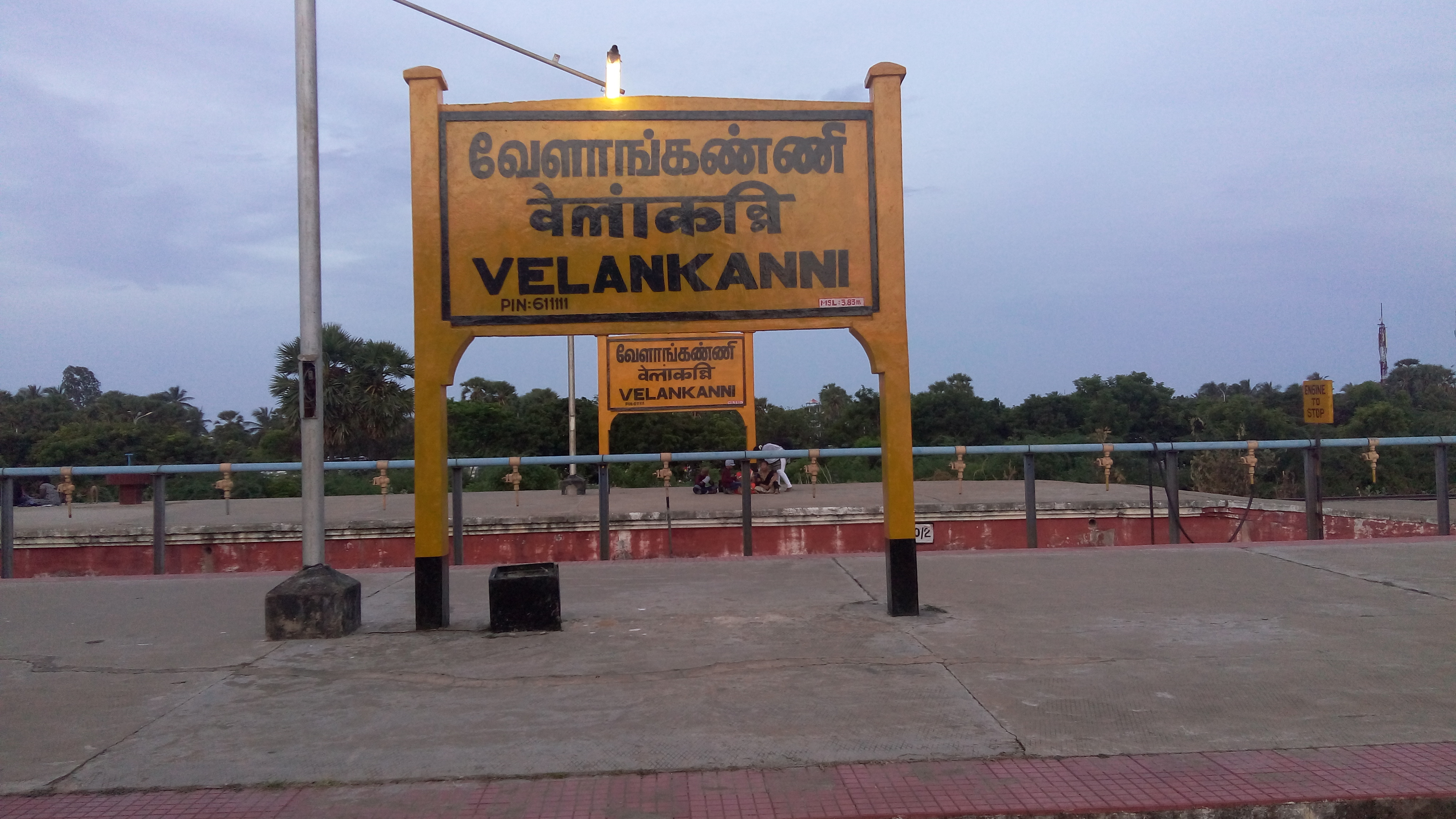 railway stationboard of velankanni Tamil Nadu india